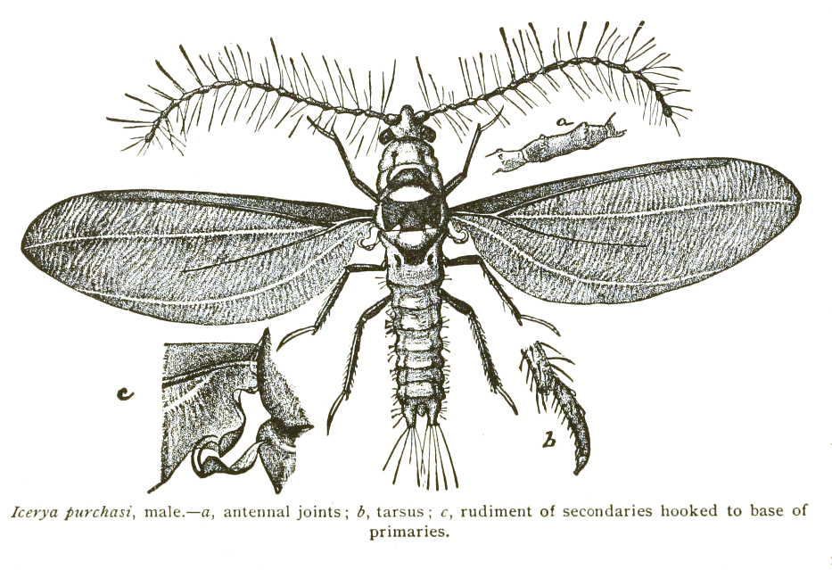 Male Icerya purchasi